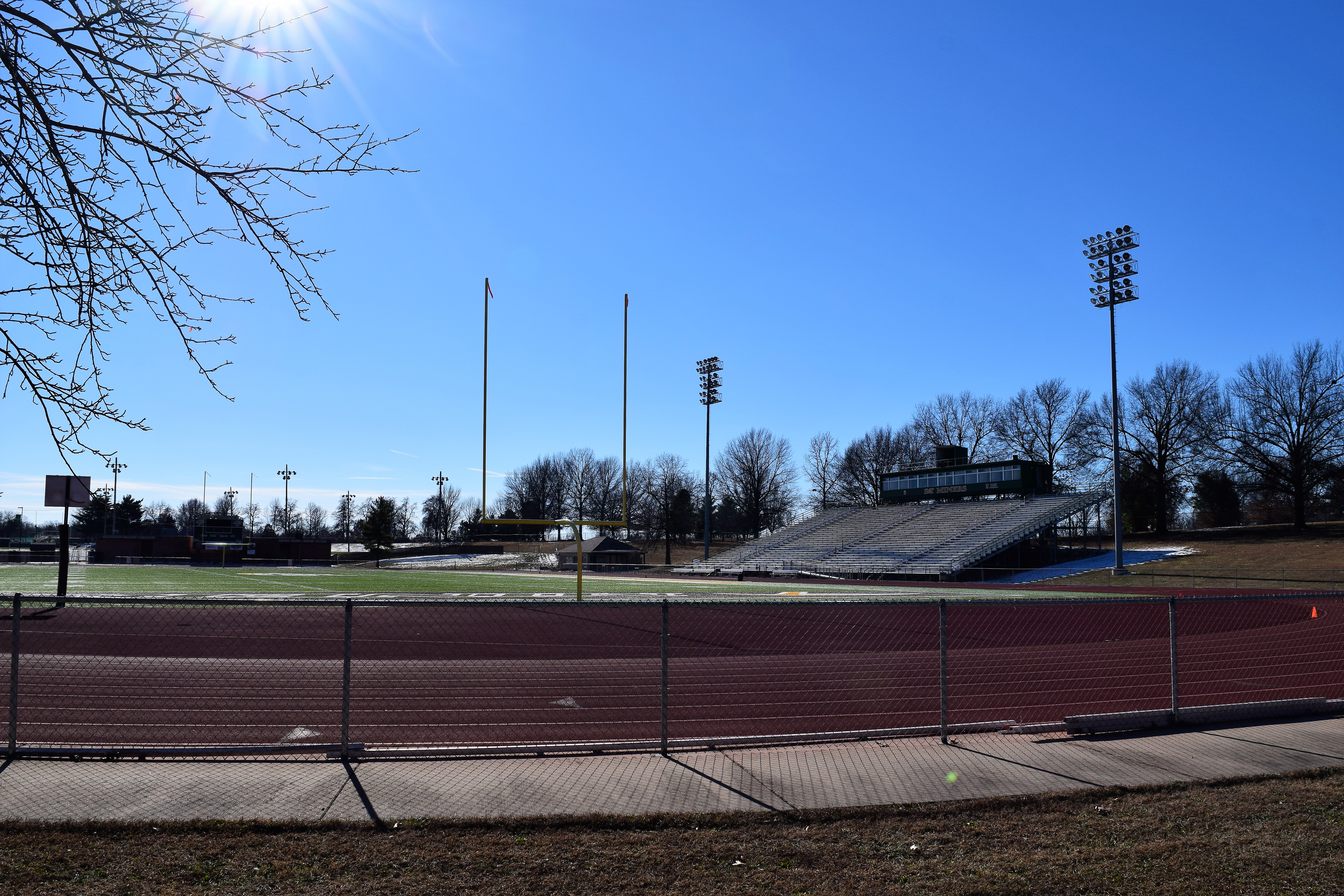 Allgood–Bailey Stadium, the home football stadium for the Division II Missouri S&T Miners.